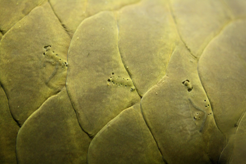 Scales of the Queensland lungfish (Neoceratodus forsteri). Aquarium photo